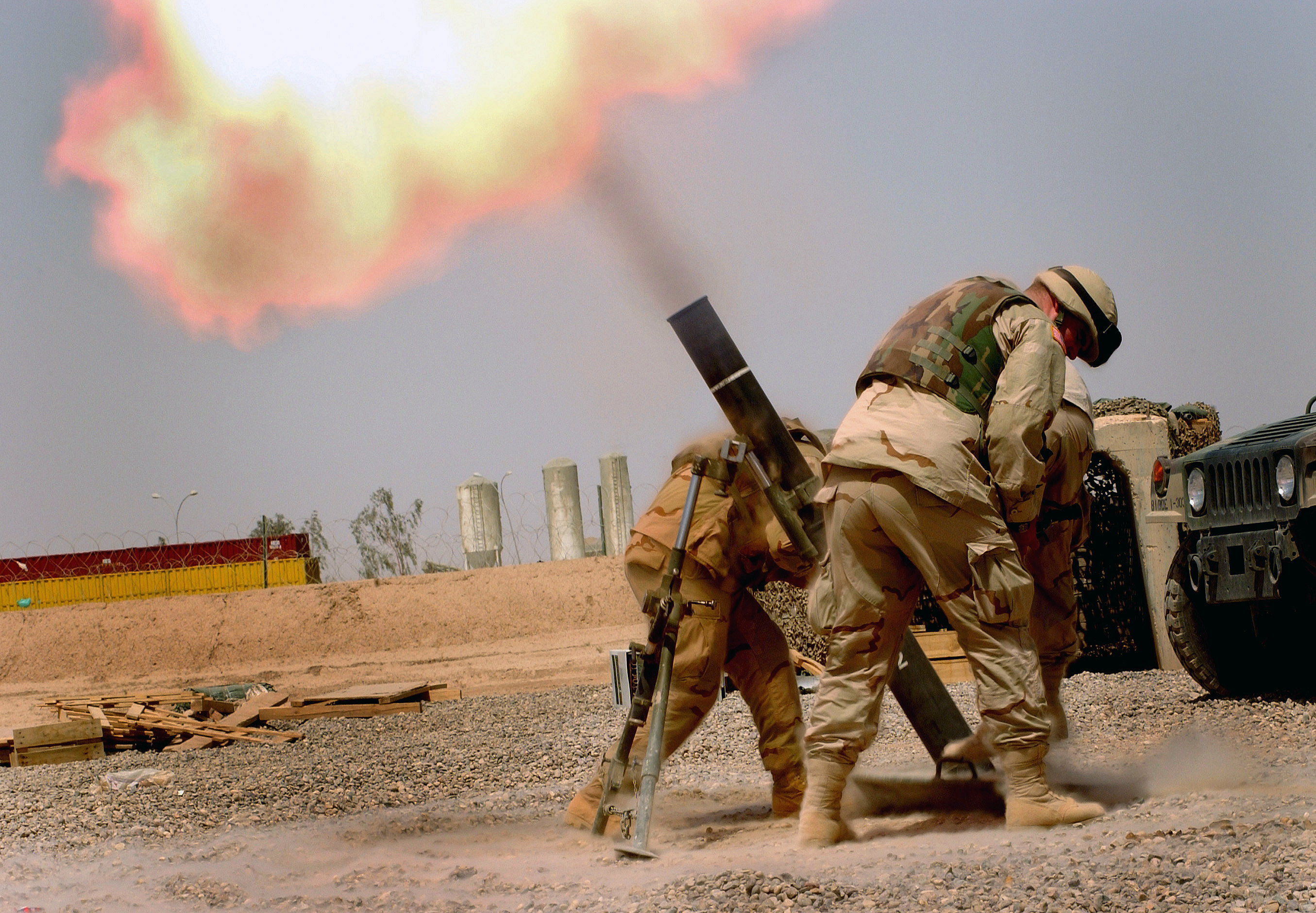 US Army (USA) Specialist (SPC) Seth Gerkin, right and Private First Class (PFC) Brian Cruz, from the 303rd Armor Attached to the 81st Brigade, Logistics Support Area (LSA) Anaconda, Iraq, fires an 120mm Mortar, in support of Operation IRAQI FREEDOM.